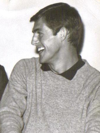 The Milutinović brothers, Milorad, Miloš and Bora.